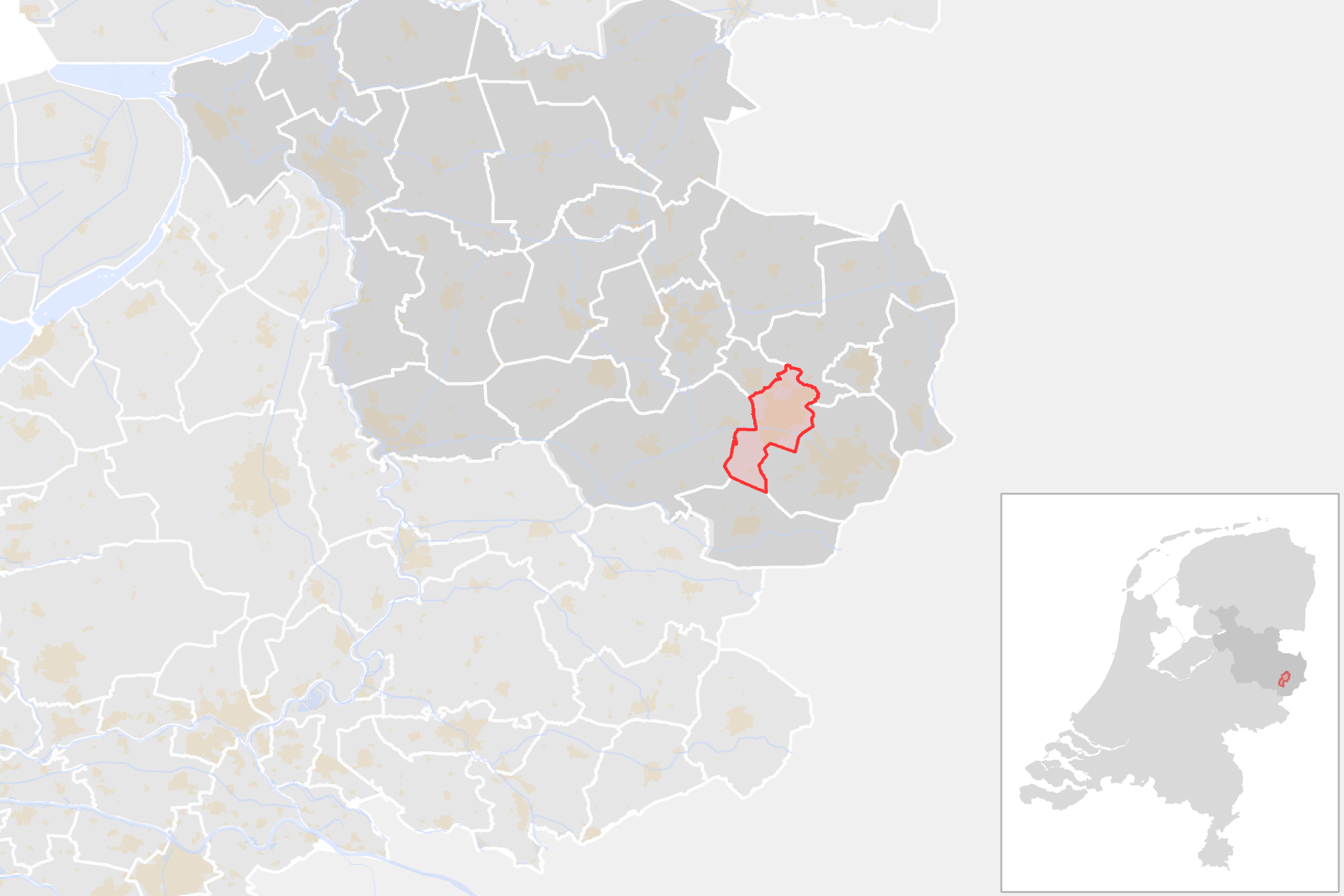 Locator map showing municipality boundary of one of the 390 Dutch municipalities (as of 2016)